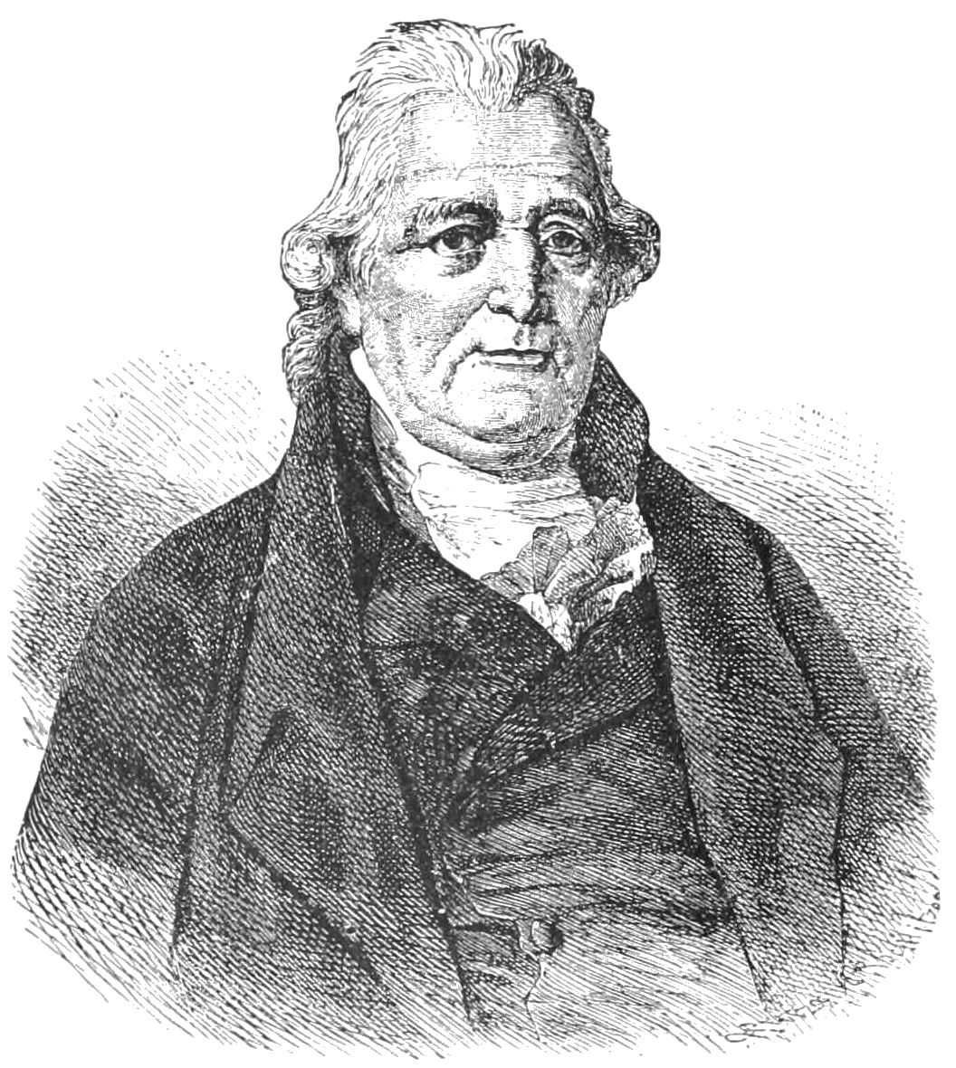 John Broadwood